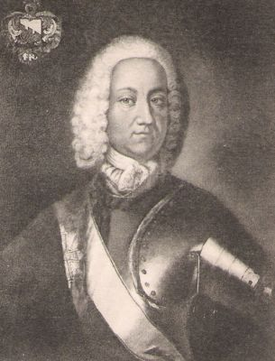 Henrik Bielke Kaas (1686-1773), Danish General and estate owner